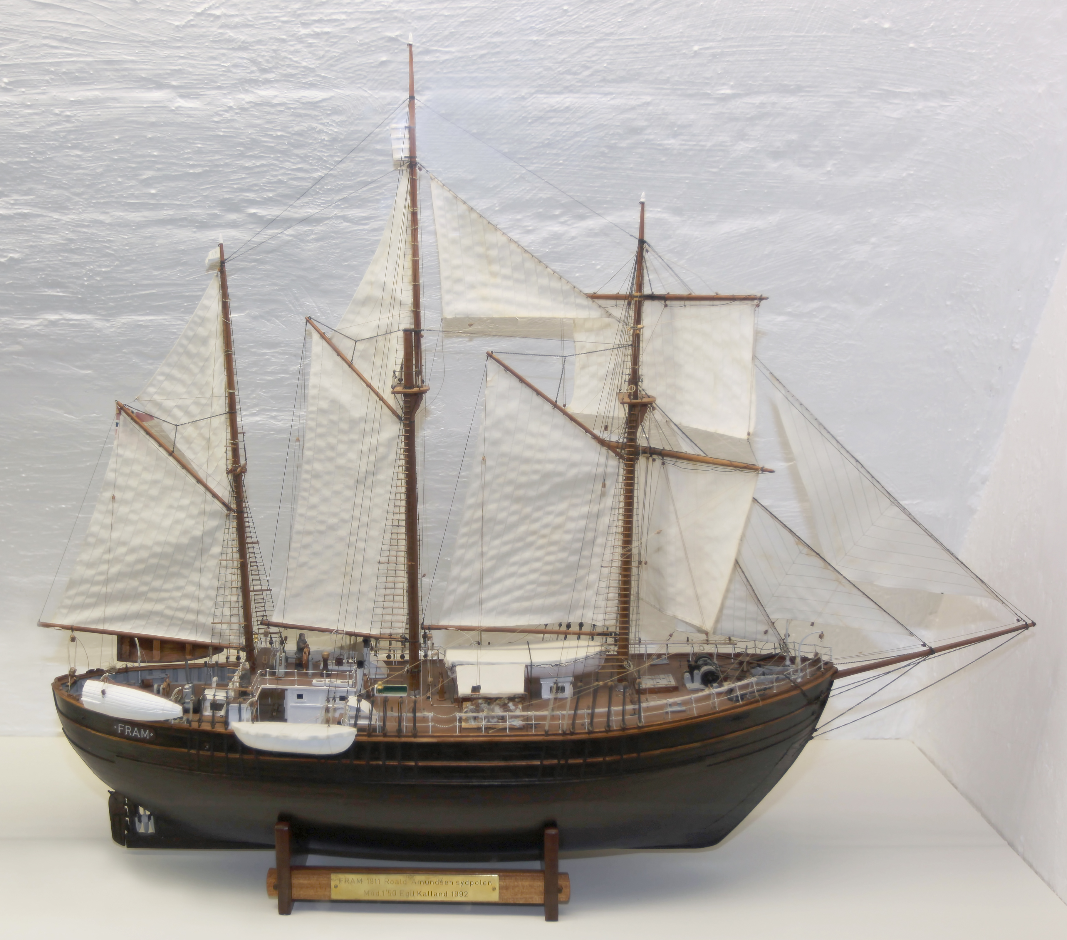 Model of the Fram 1910-1912 at the Fram Museum, Oslo, Norway. Model by Egil Kalland.